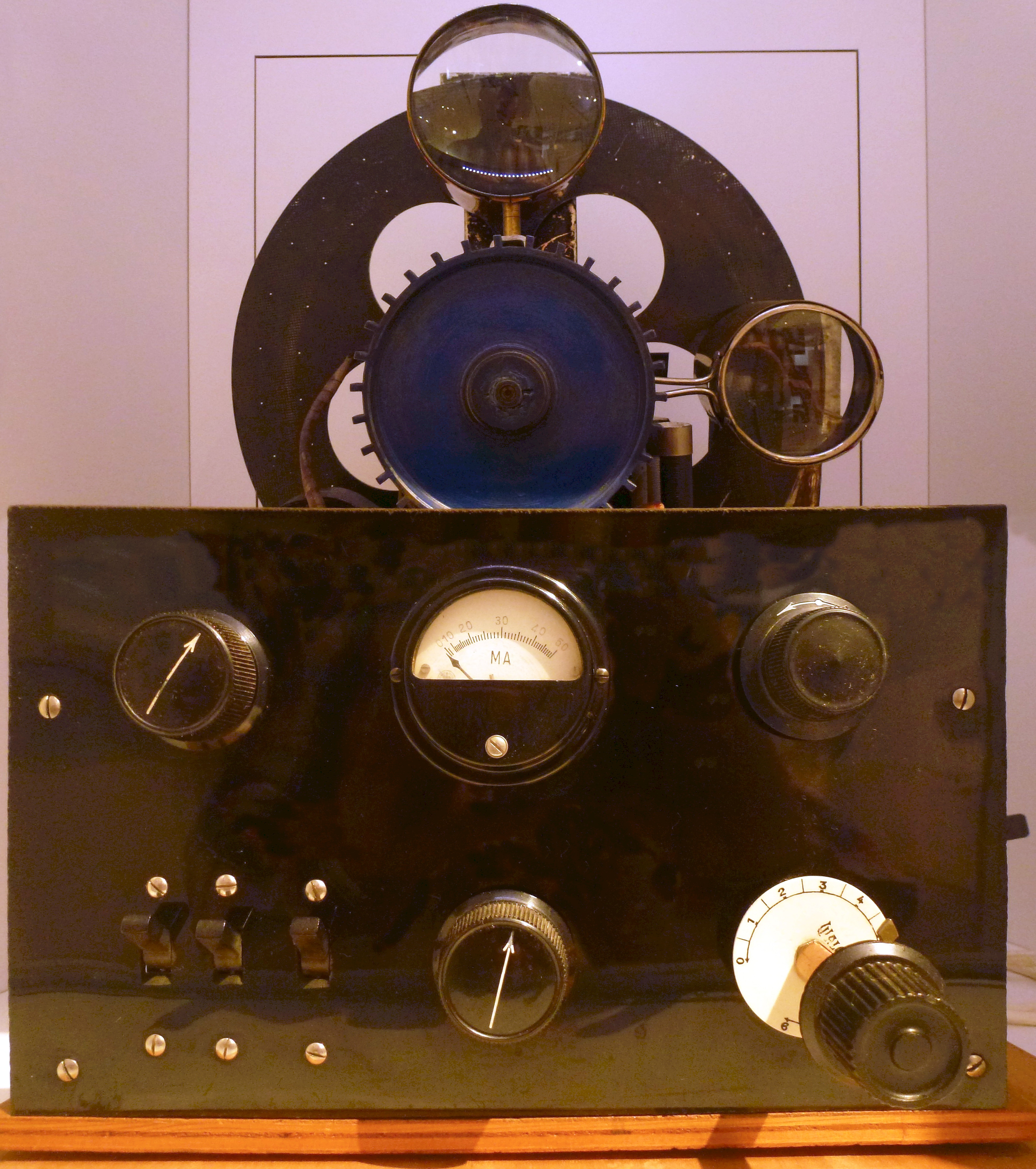 An early mechanical-scan television receiver from the 1930s. Dozens of early stations experimented with television broadcasting using these mechanical-scanning systems during the 1920s and 30s. It uses a Nipkow disk, a spinning metal disk with a spiral pattern of holes in it. A neon light behind the disk, shining through the holes, creates the scan lines of the TV image. The image is only about one inch (3 cm) square so it is viewed through the magnifying lenses shown. The video signal from the receiver (bottom) is applied to the neon light, varying its intensity, to create the different tones of the monochrome image. Different TV stations used different numbers of scan lines and frame rates, and this receiver has two lenses and two neon lights, so it was able to receive TV broadcasts with two different standards, probably a 48 line, 15 frames per second broadcast and a 60 line, 20 frames per second broadcast.